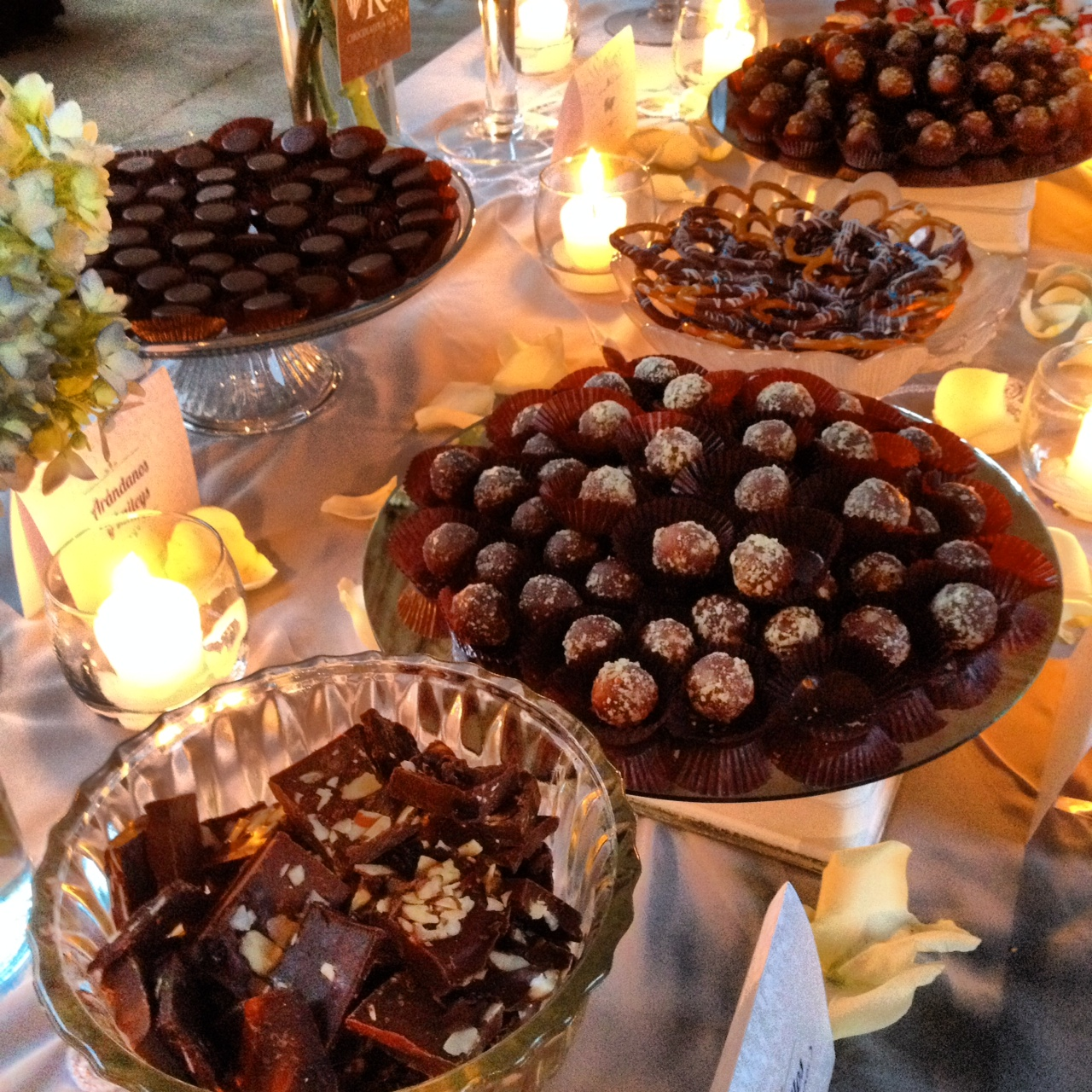 chocolates